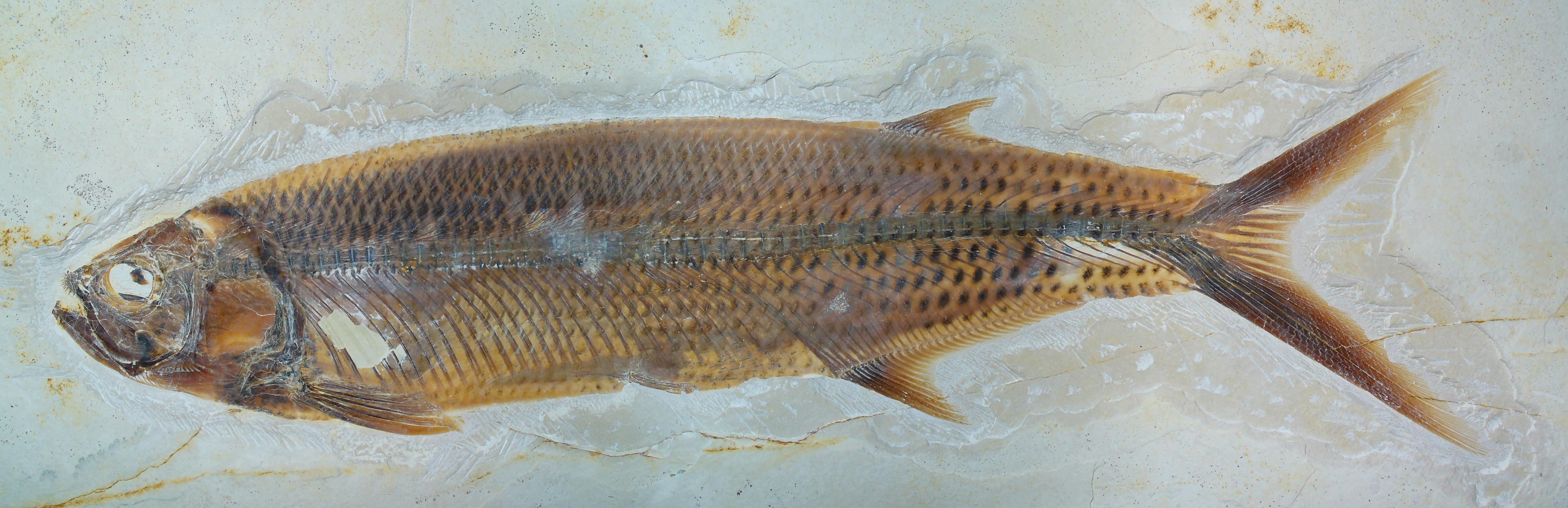 Thrissops cf. formosus, Ichthyodectidae; Upper Jurassic, Tithonium, Ettling, Bavaria, Germany; Jura-Museum Eichstätt, Germany (48°53′38.36″N 11°10′14.45″E / 48.8939889°N 11.1706806°E). The scales show the original colour pattern, induced by melanin. In addition, one can see muscles and parts of the gastrointestinal tract. This is one of the best conserved fossil fishes worldwide. Photo taken when on loan in an exposition in the Staatliches Museum für Naturkunde Karlsruhe (49°0′26.63″N 8°24′0.32″E / 49.0073972°N 8.4000889°E)